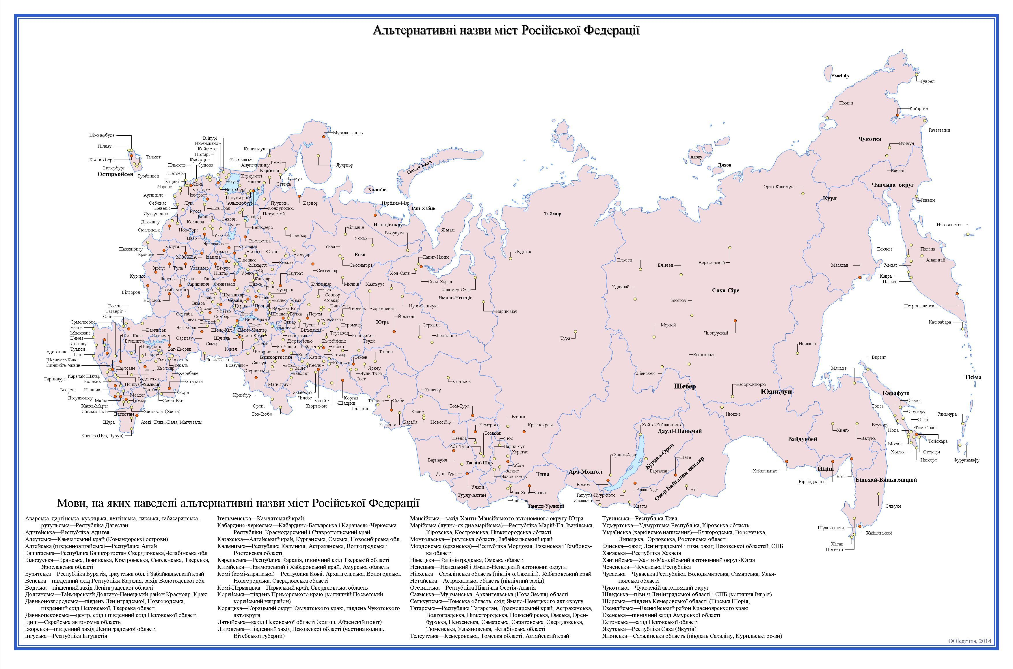 Alternative names of cities of the Russian Federation